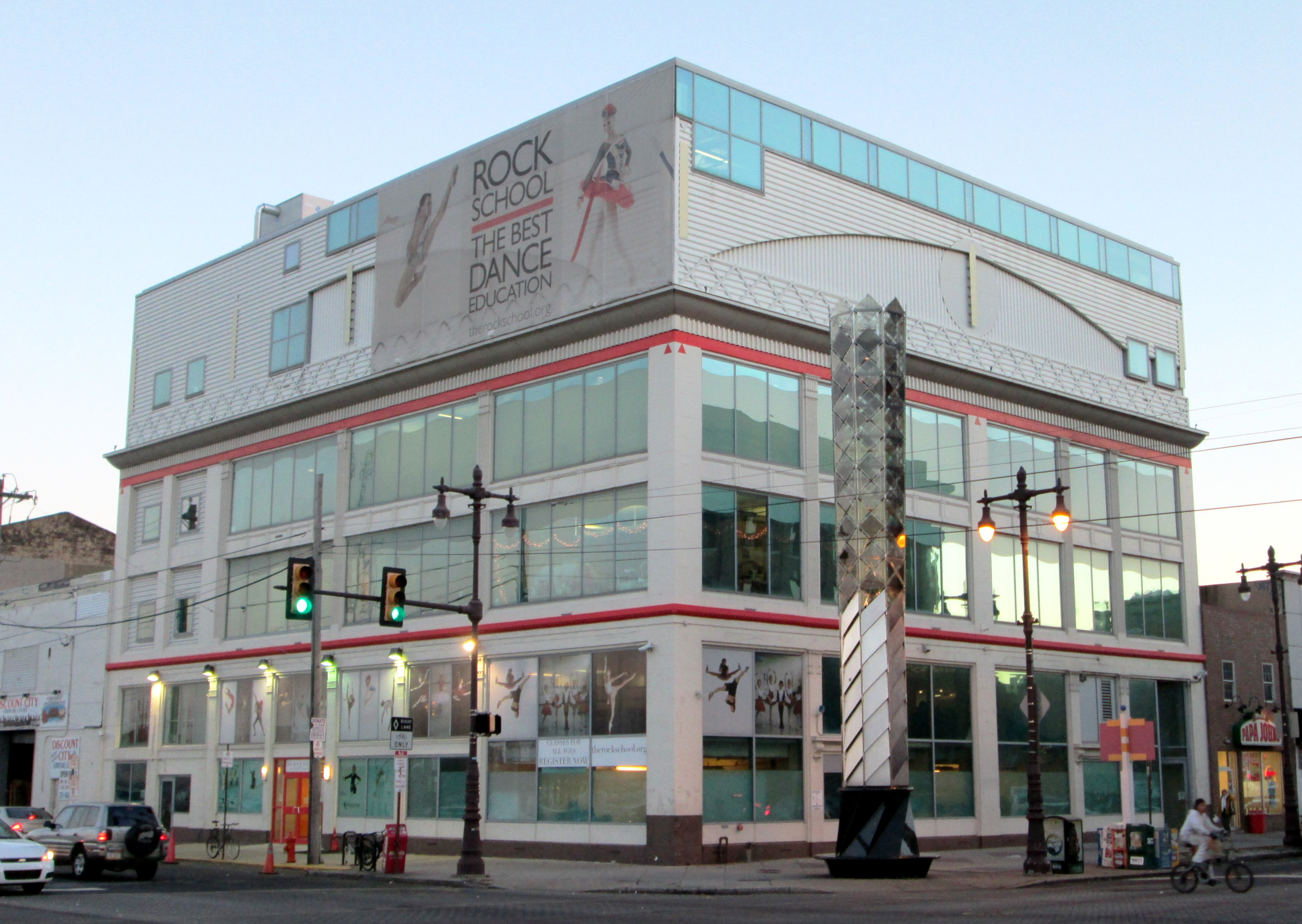 The Rock School for Dance Education was founded in 1963 as the School of the Pennsylvania Ballet, and became independent in 1992. The school has two facilities, "Rock West" in West Chester, Pennsylvania, and "Rock Center", seen here, at 1101 South Broad Street at Washington Street in the Point Breeze neighborhood of South Philadelphia in Philadelphia, Pennsylvania. The building is a former car dealership that was bought and renovated by the Pennsylvania Ballet, but sold to the Rock School when the Ballet was unable to meet the mortgage. The Ballet and the school shared the building until 2007. (Sources: [1], [2] and [3]) Outside the building is one of sculptor Ray King's "Philadelphia Beacon", which are located on the four corners of the intersection of South Broad Street and Washington Avenue.